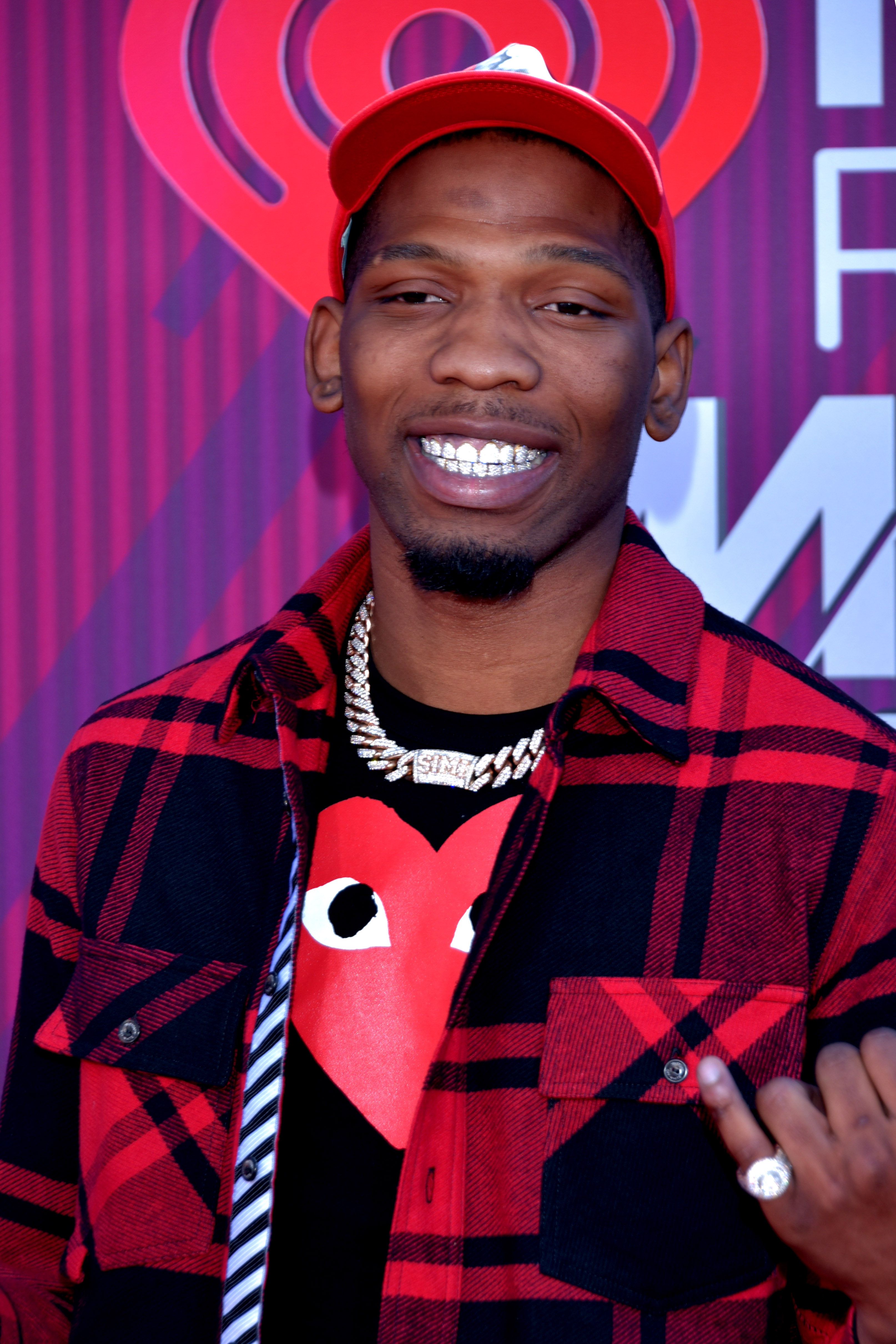 BlocBoy_JB at the 2019 iHeartRadio Music Awards in Los Angeles California on March 14, 2019 - Photo by Glenn Francis of